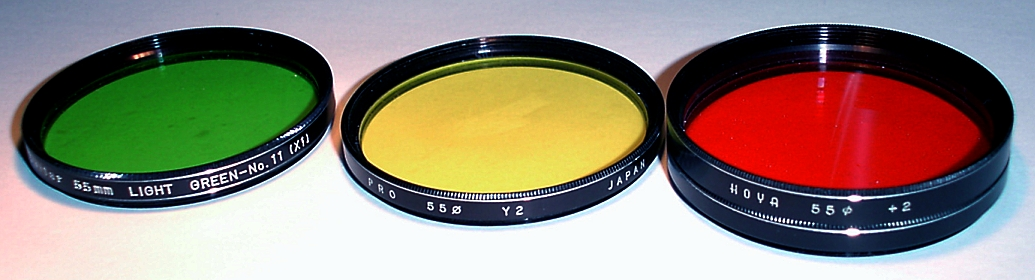 Three 55 mm camera filters. From left to right: "Vivitar 55mm LIGHT GREEN-No. 11 (X1) JAPAN" (green) "PRO 55Ø Y2 JAPAN" (yellow) "HOYA 55Ø +2 JAPAN" (clear) screwed onto a "PRO 55Ø R2 JAPAN" (red)